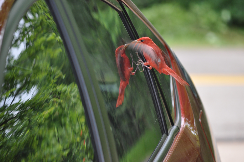 A Summer Tanager Piranga rubra fighting against its own reflection visible in an automobile window